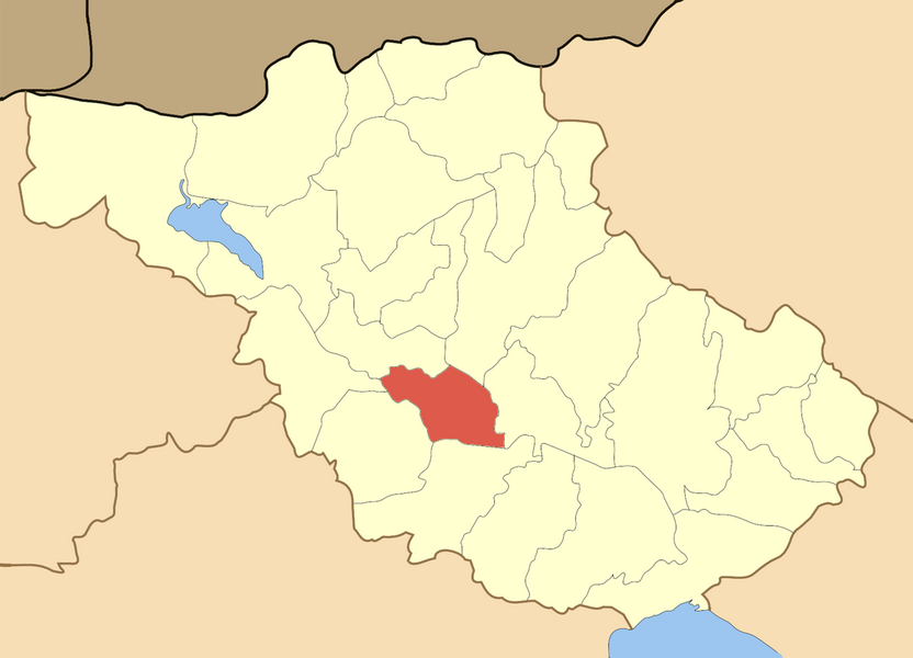 Locator map of Skoutari municipality in Serres perfecture in Greece.